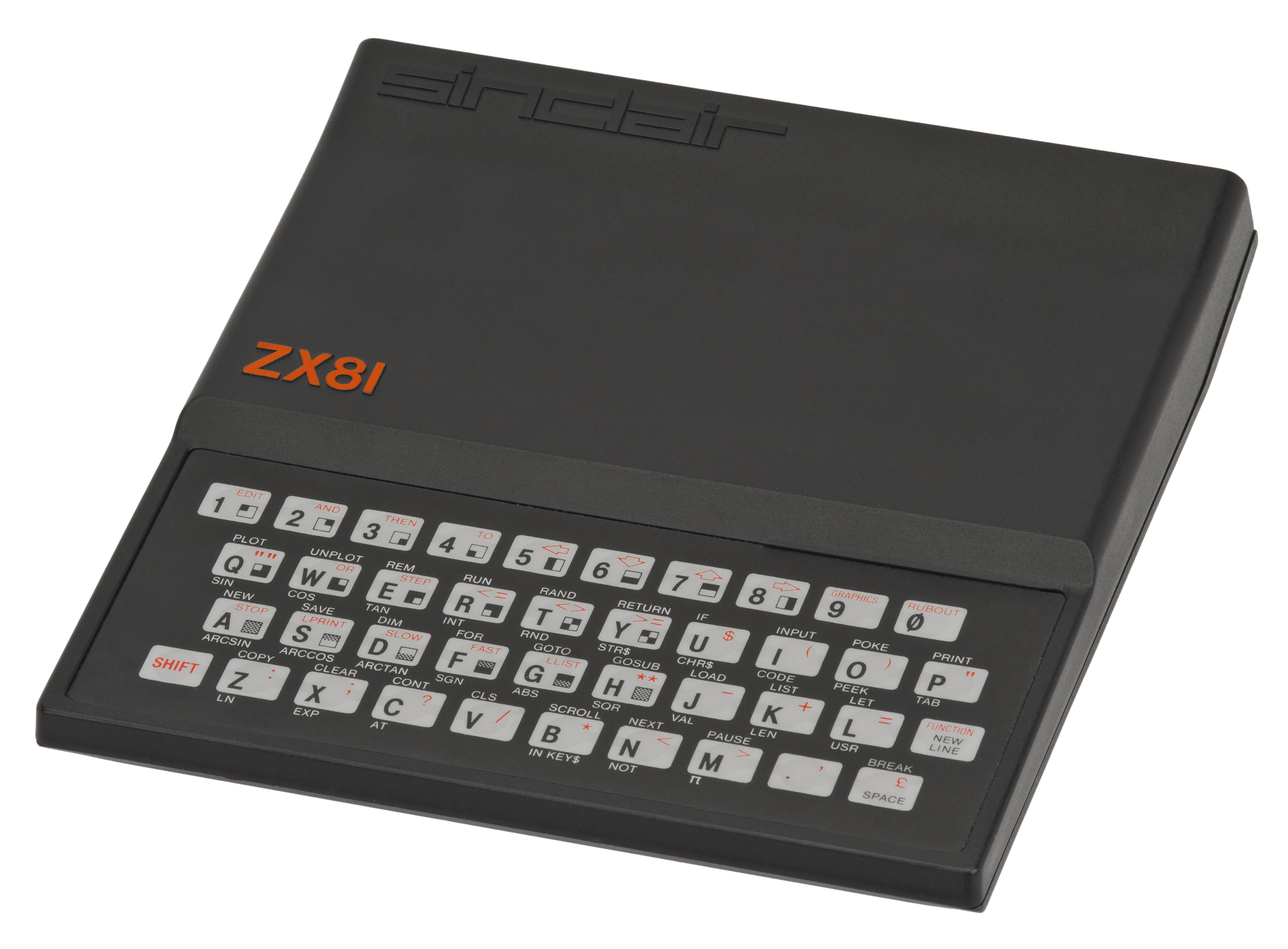 The Sinclair ZX81, a hobbyist home computer released in the UK in 1981.